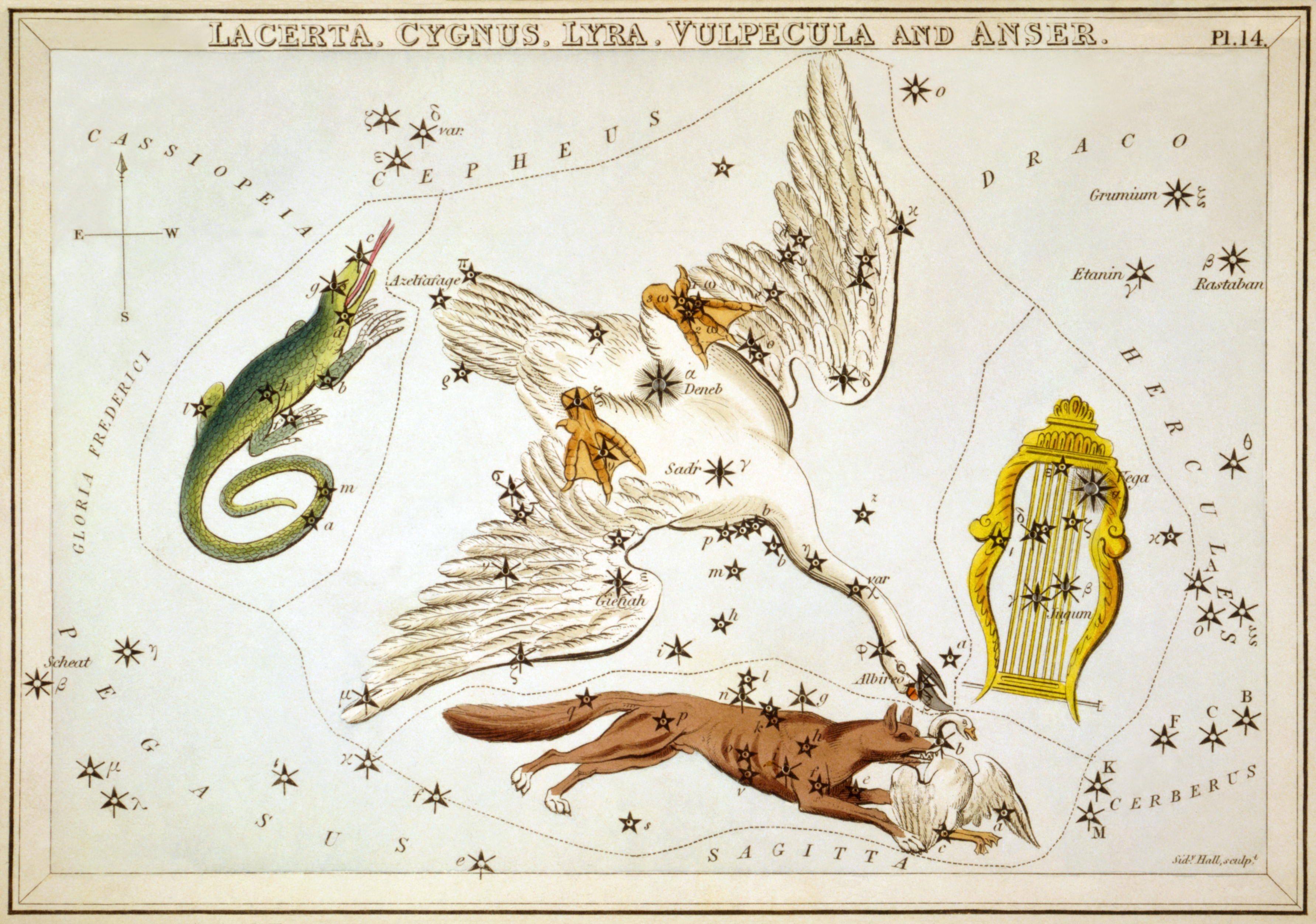 "Lacerta, Cygnus, Lyra, Vulpecula and Anser", plate 14 in Urania's Mirror, a set of celestial cards accompanied by A familiar treatise on astronomy ... by Jehoshaphat Aspin. London. Astronomical chart, 1 print on layered paper board : etching, hand-colored. "Vulpecula and Anser" is basically the full name of the constellation "Vulpecula", now standardised to its shortened form.